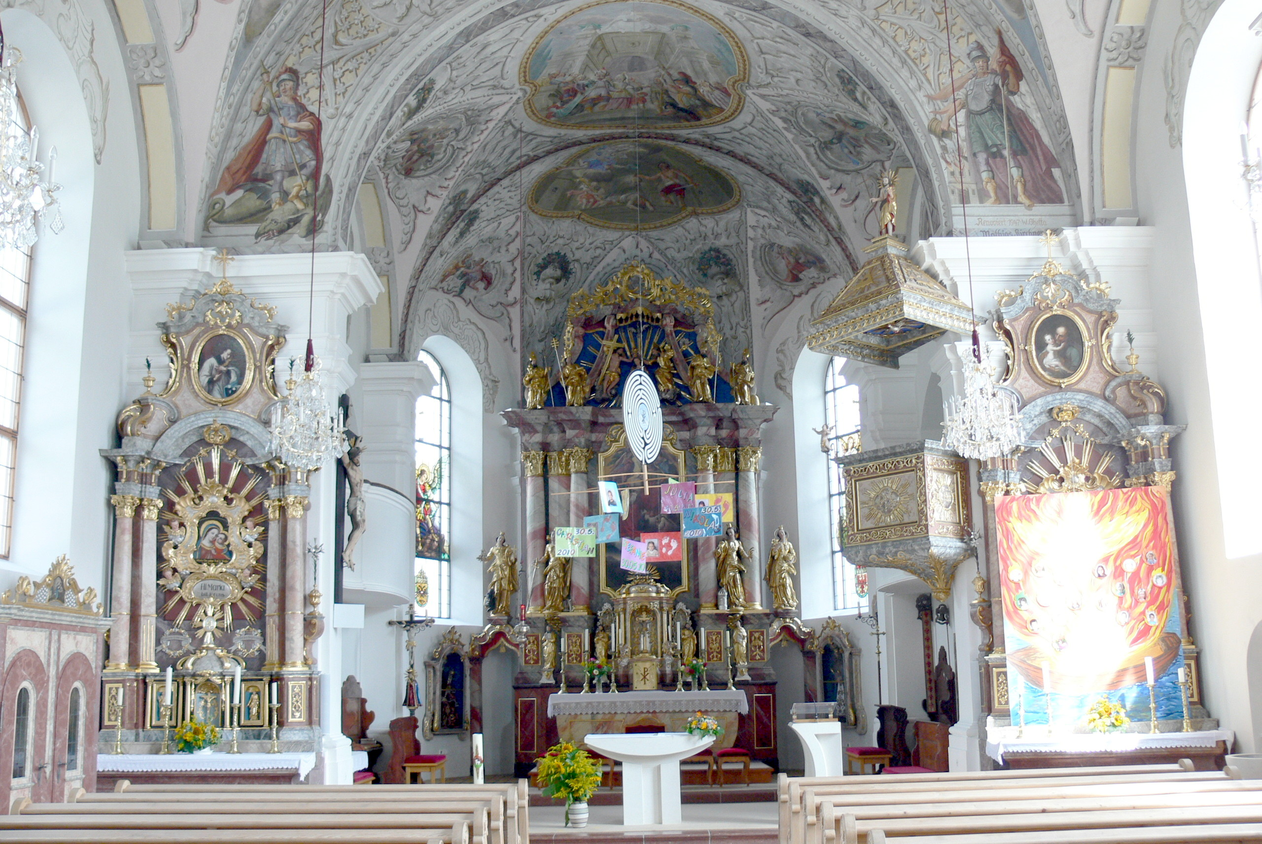 Scheffau parish church ( 1754 ) - Interior.